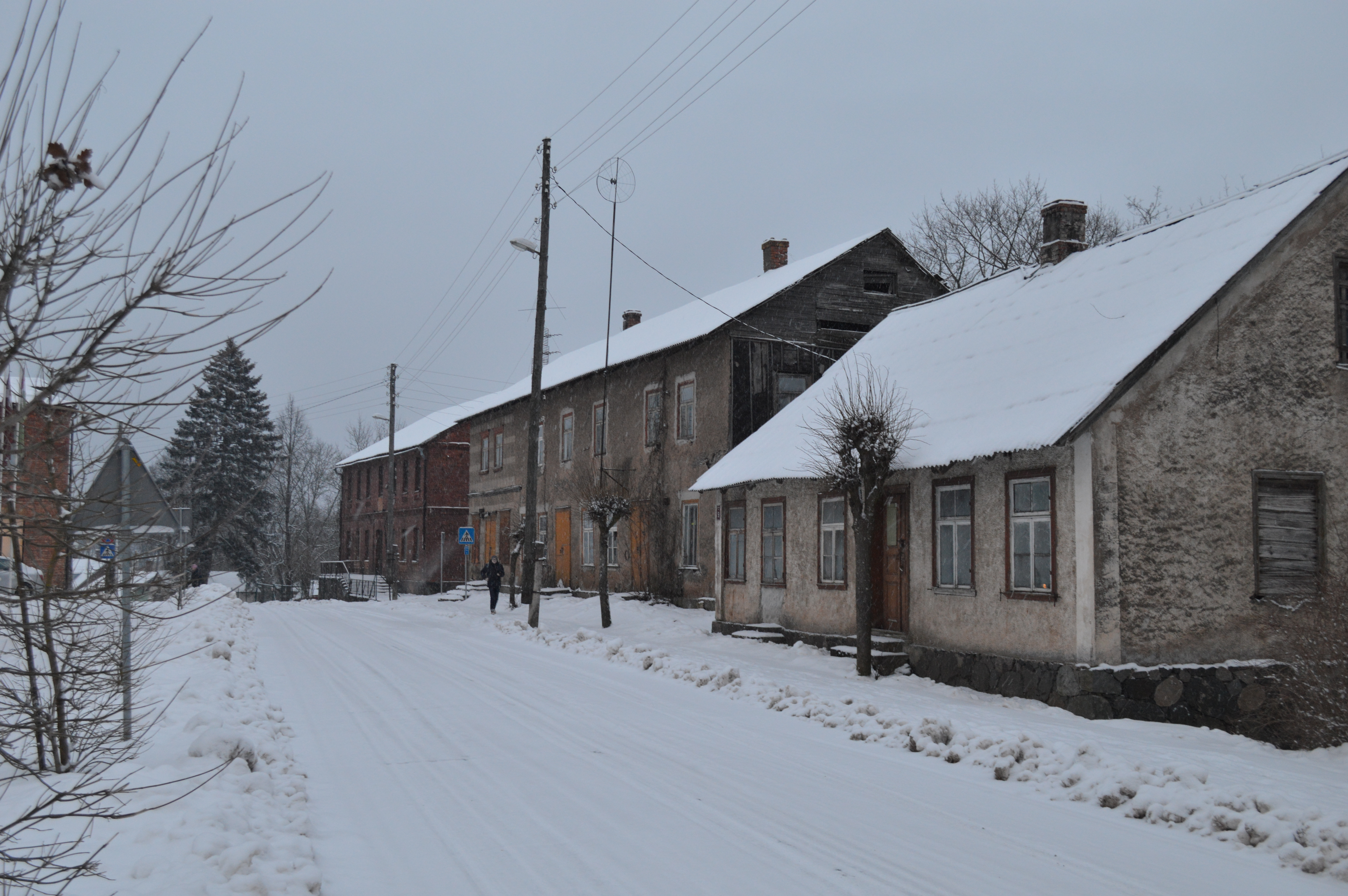 Brīvības street in Viesīte.